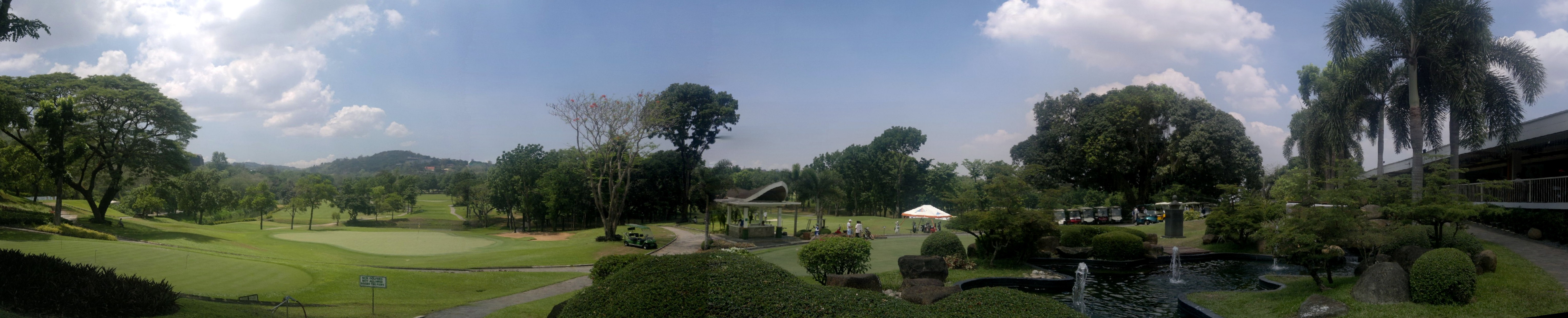 Panorama View of Volley Golf and Country Club, Antipolo City